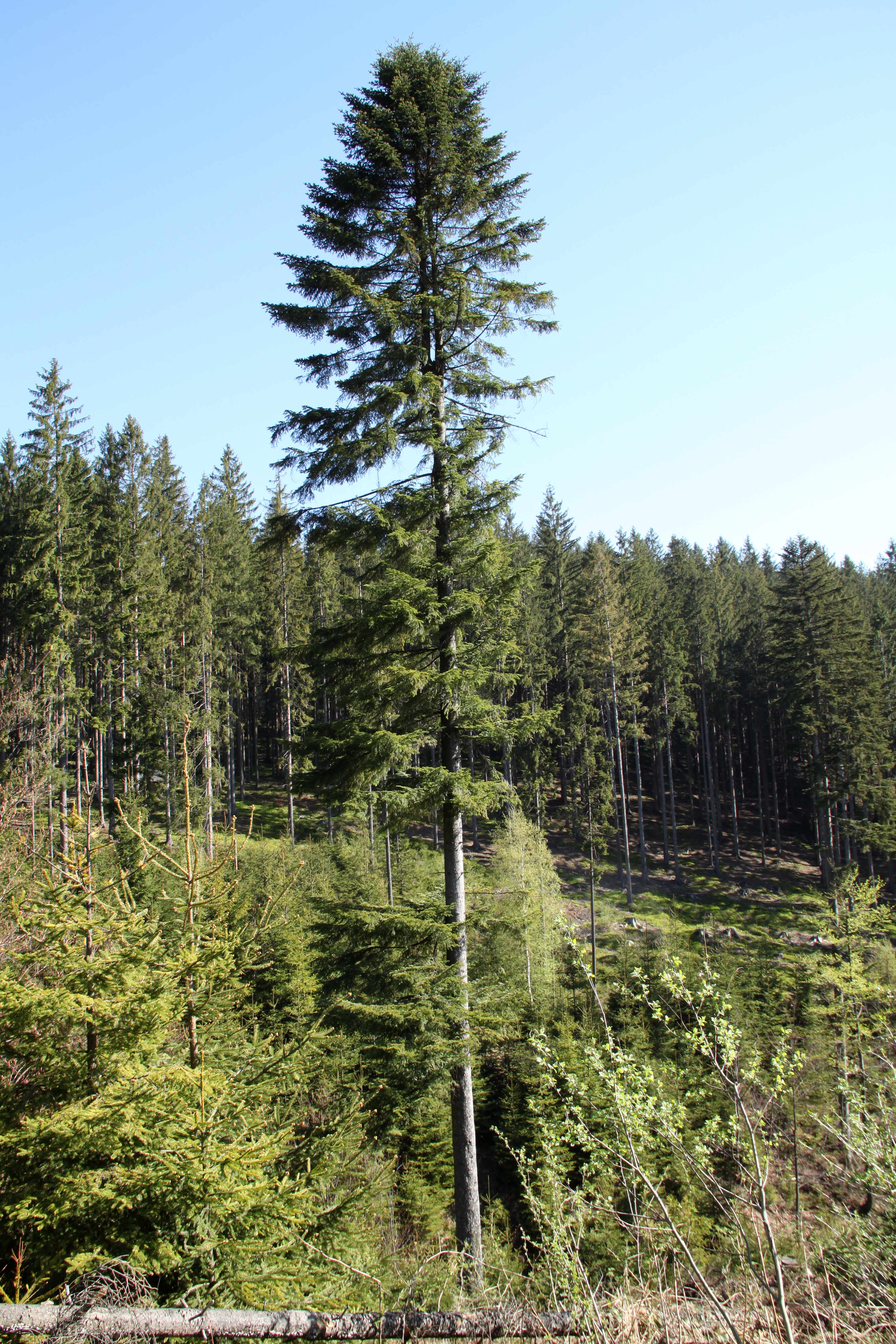 Silver Fir (Abies alba) in Silesian Beskids, Poland.